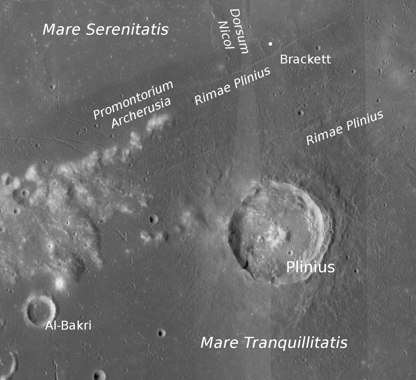 Crater Plinius with Promontorium Archerusia and Rimae Plinius (detail of LROC - WAC global moon mosaic)